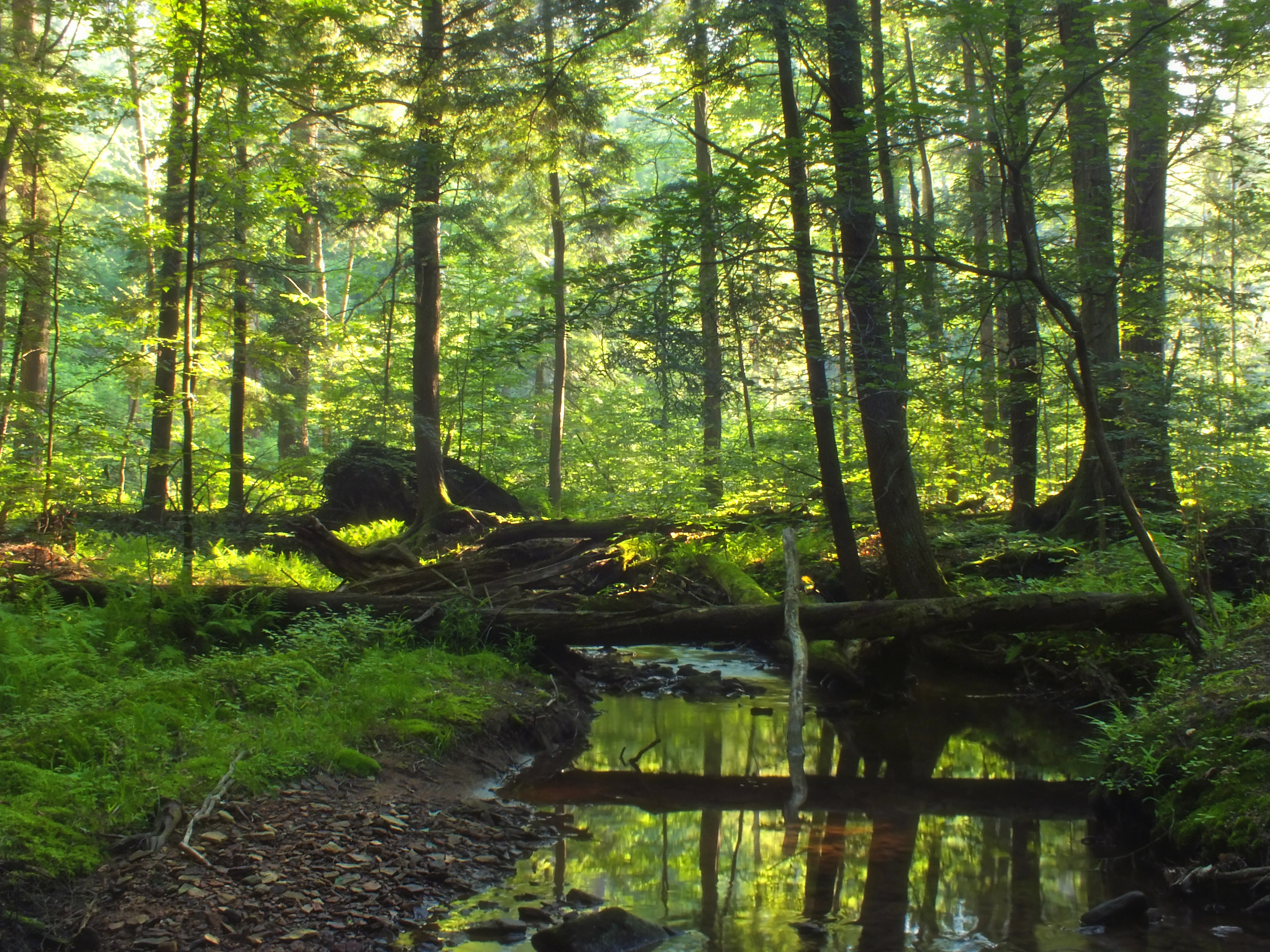 East Fork Run, McKean County, within the Tionesta Research Natural Area of Allegheny National Forest. The Tionesta Scenic and Research Natural Areas encompass 4000-plus acres of old-growth forest. The forest is magnificent; however, the combined effects of beech bark disease and weather disturbances (particularly the May 1985 tornado) have greatly opened the forest canopy. The Research Natural Area, unlike the adjacent Scenic Area, has no trails. The best access is from a pipeline swath that connects with Forest Road 443 northeast of Brookston.